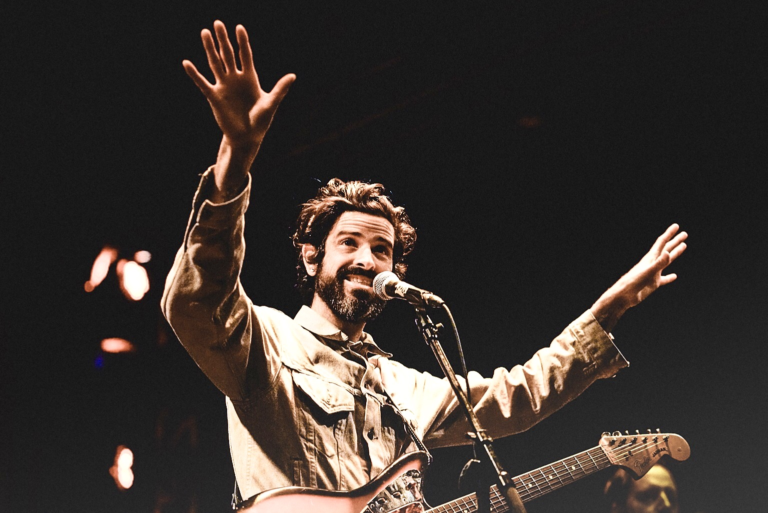 Devendra Banhart photographed by Cal Quinn at The Granada Theatre 2.15.17